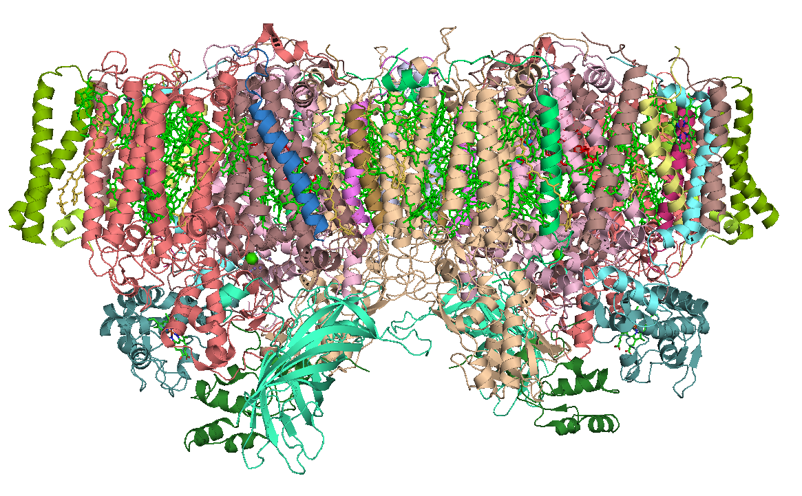 Structure of Photosystem II, PDB 2AXT